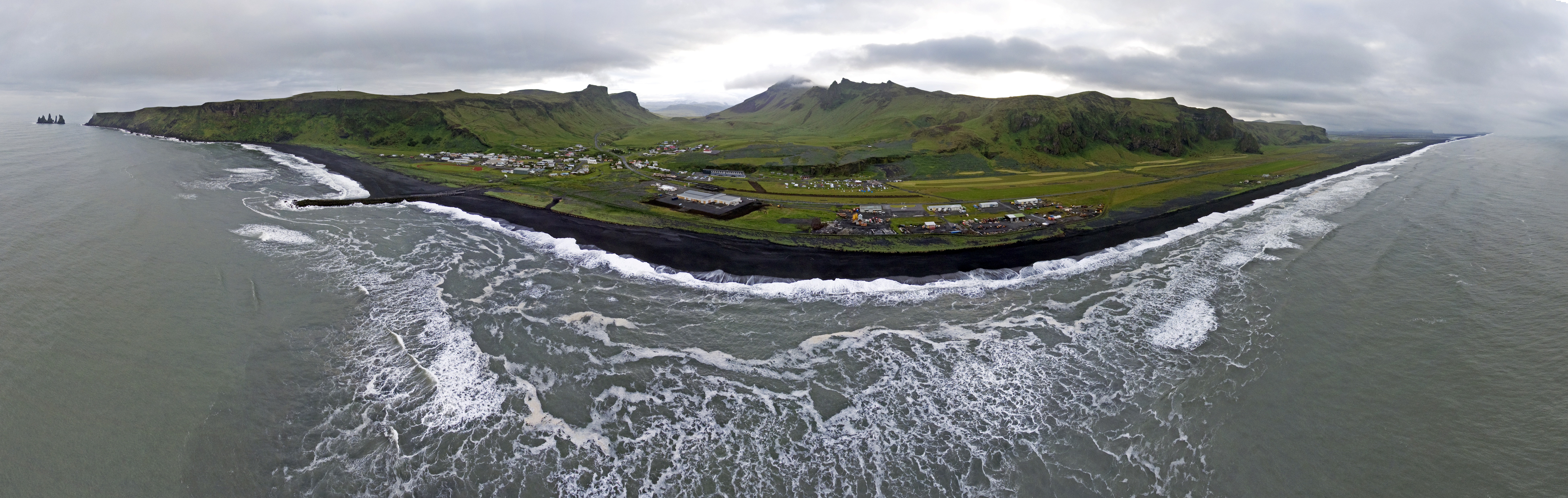 Vík í Mýrdal Aerial Panorama from out at sea